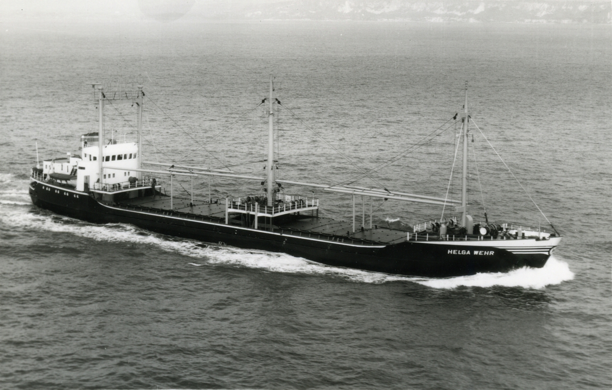 General cargo ship HELGA WEHR (IMO 6609664) built at J.J. Sietas Schiffswerft, Hamburg-Neuenfelde, in 1966 (№ 573, Sietas type 9b); collection J. Robert Boman (1926 - 2002) owned by Sjöhistoriska museet.